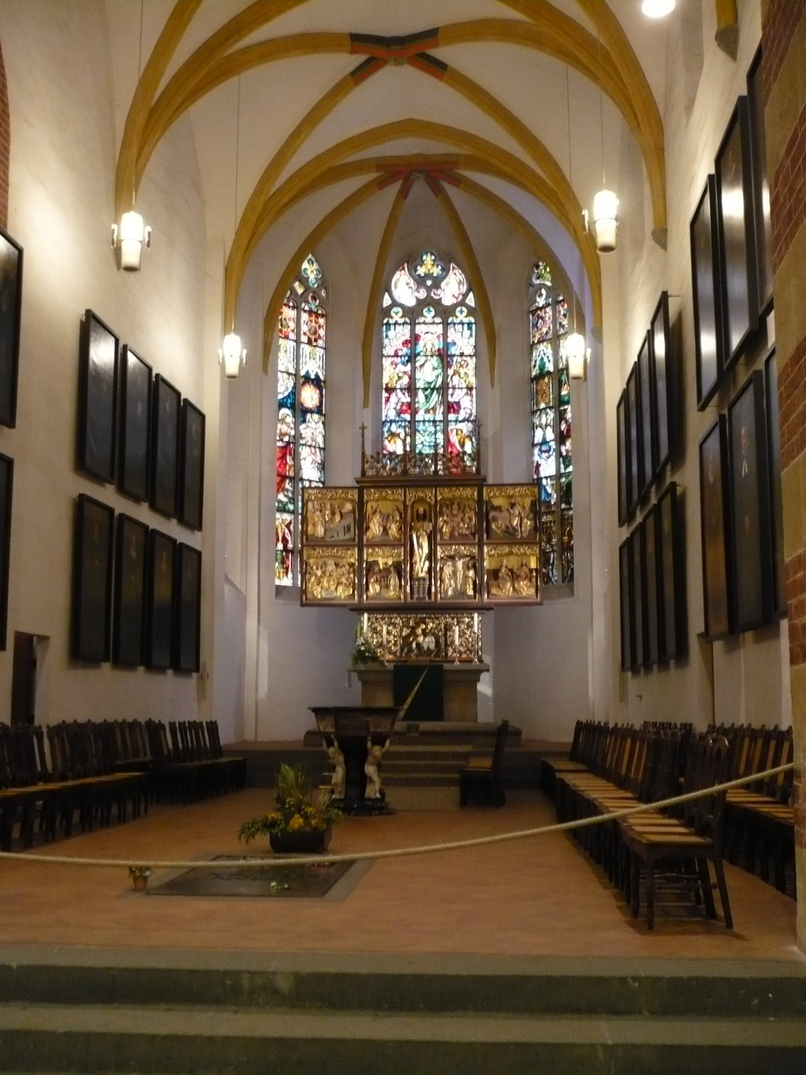 Bach's grave in the Thomaskirche altar (floor).